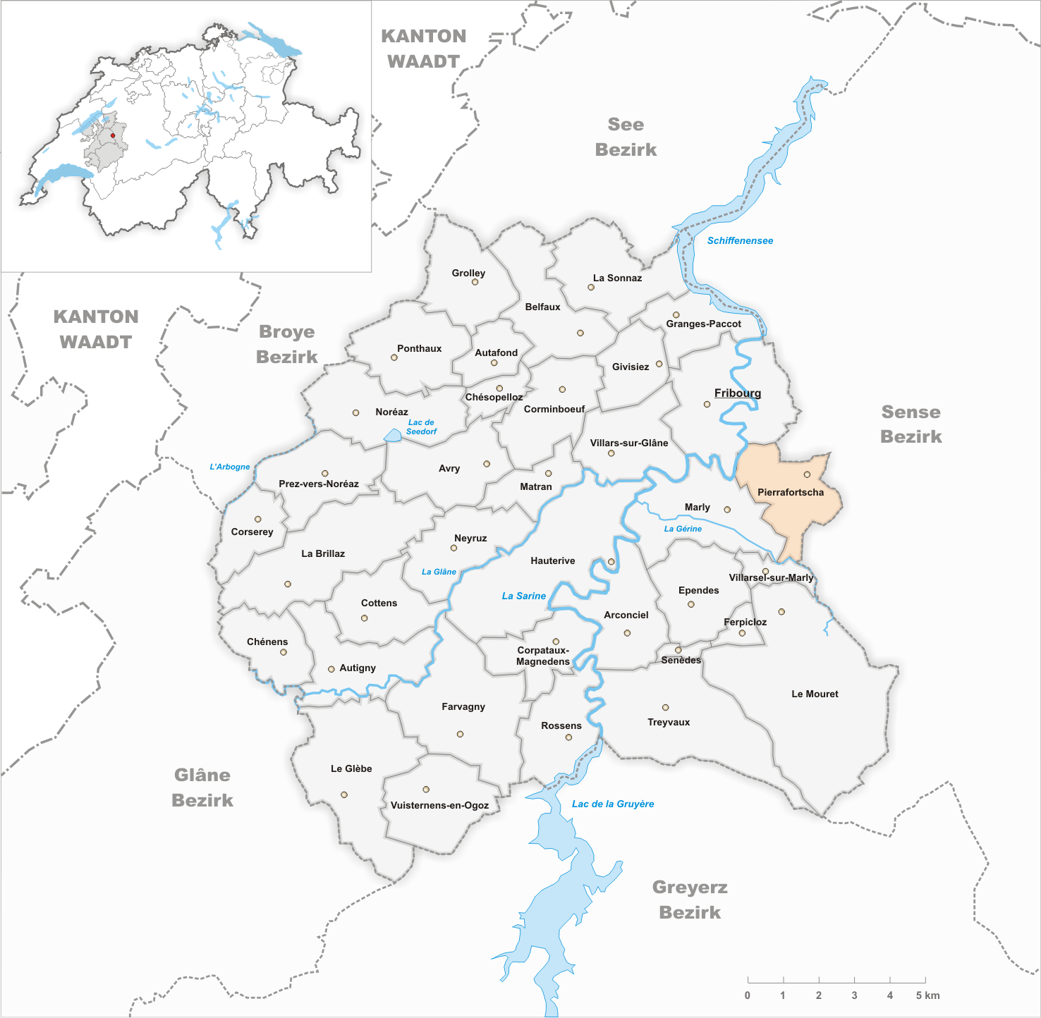 Municipality Pierrafortscha